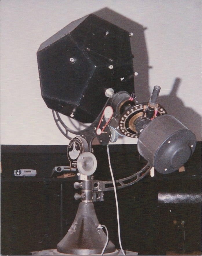 Spitz planetarium projector (installed 1953) at the Roger Williams Park Museum of Natural History and Planetarium in Providence, USA. This model is a variant of the Model A designed for the U.S. Navy called the Spitz NAVEXOS P-954, Celestial Identification Trainer.